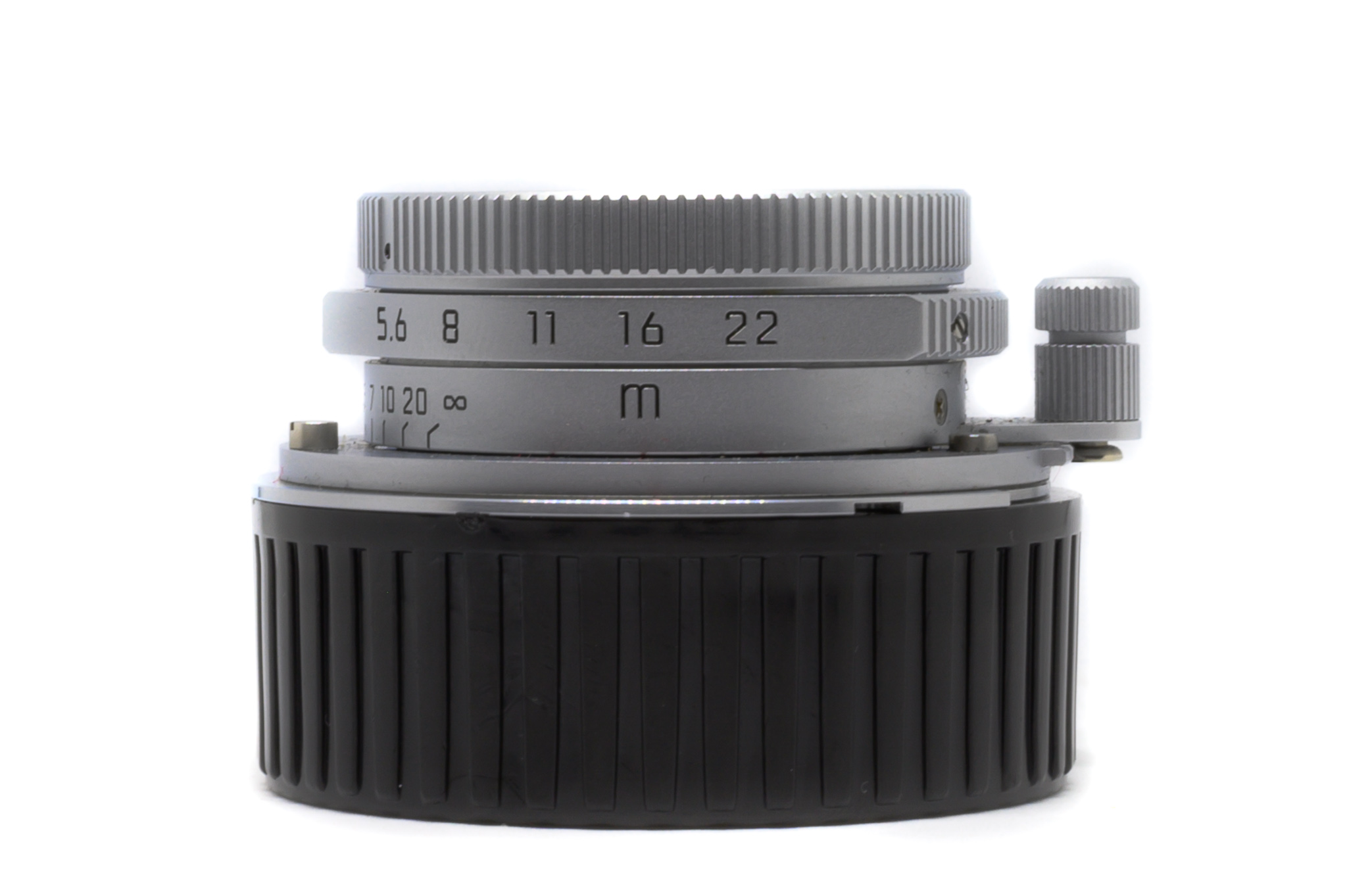 Leica Summaron-M 28mm f5.6